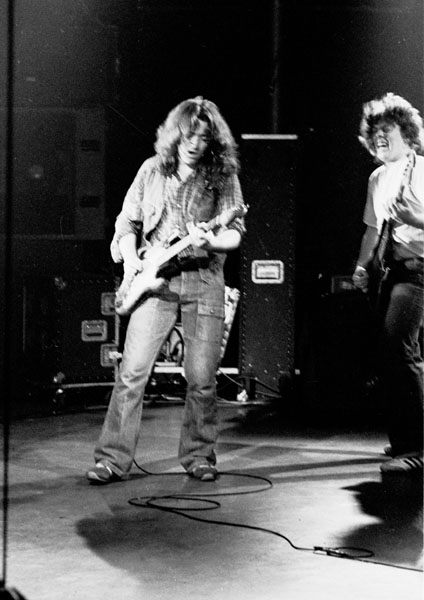 Rory Gallagher, (left) and Gerry McAvoy (right), playing in concert, 1970s. Photographer: Eddie Mallin